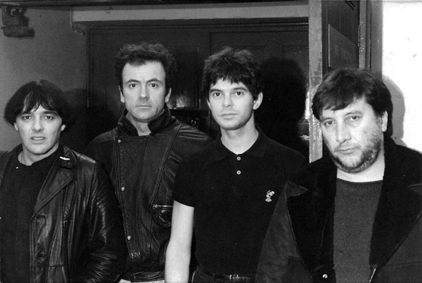 The Stranglers backstage at Dominion Theatre, London, 1985